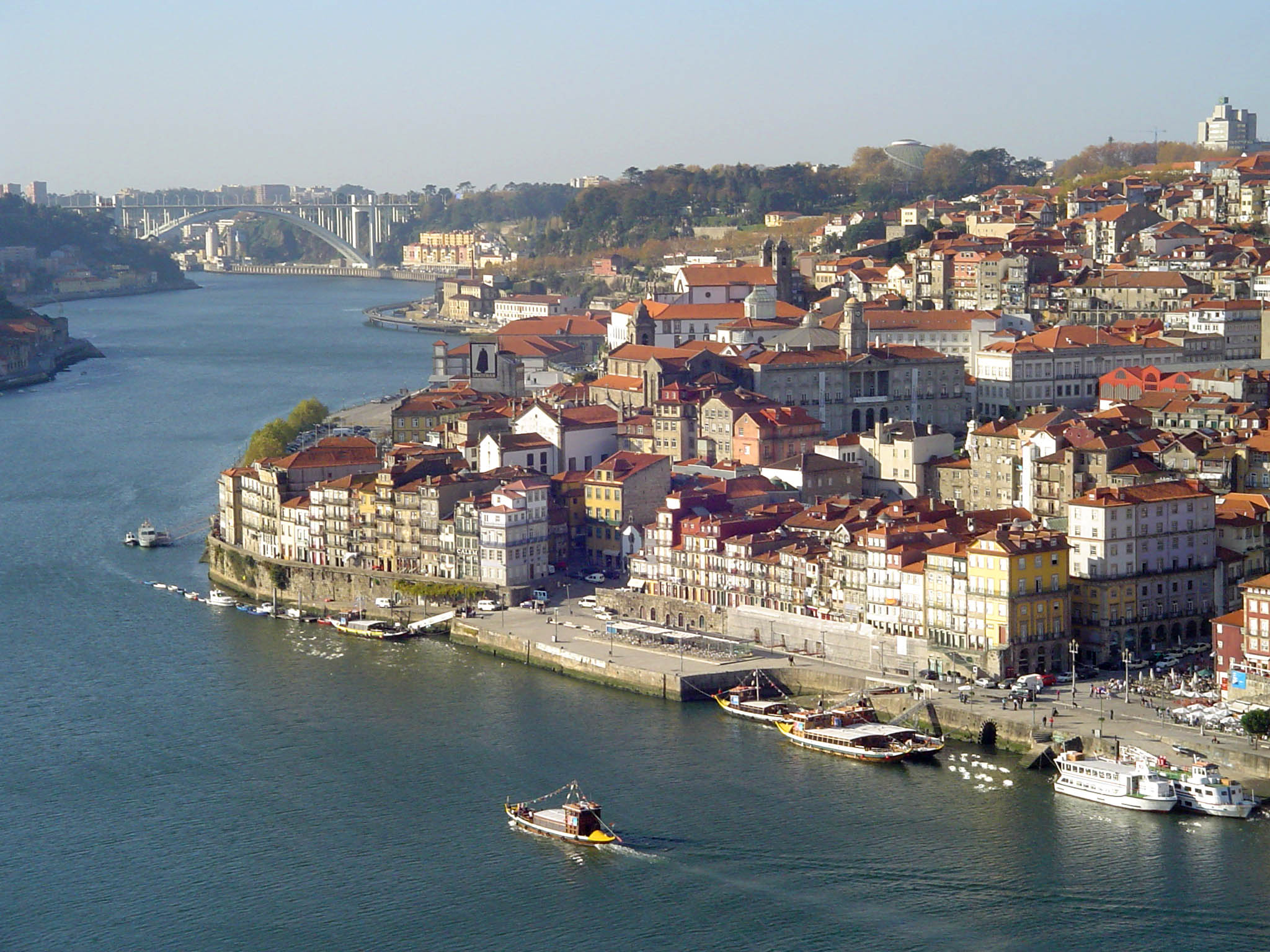 Ribeira & Arrábida Bridge